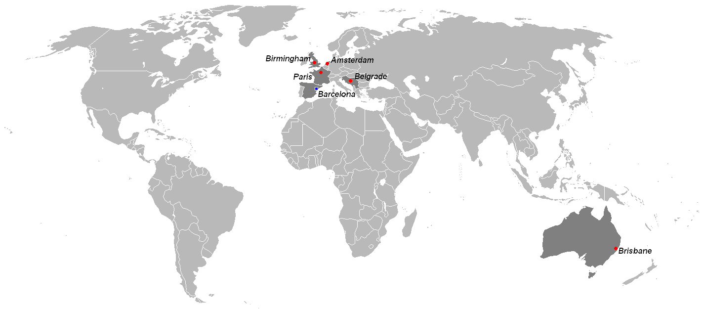 The candidate cities to host the 1992 Summer Olympics, derived from blank world map.